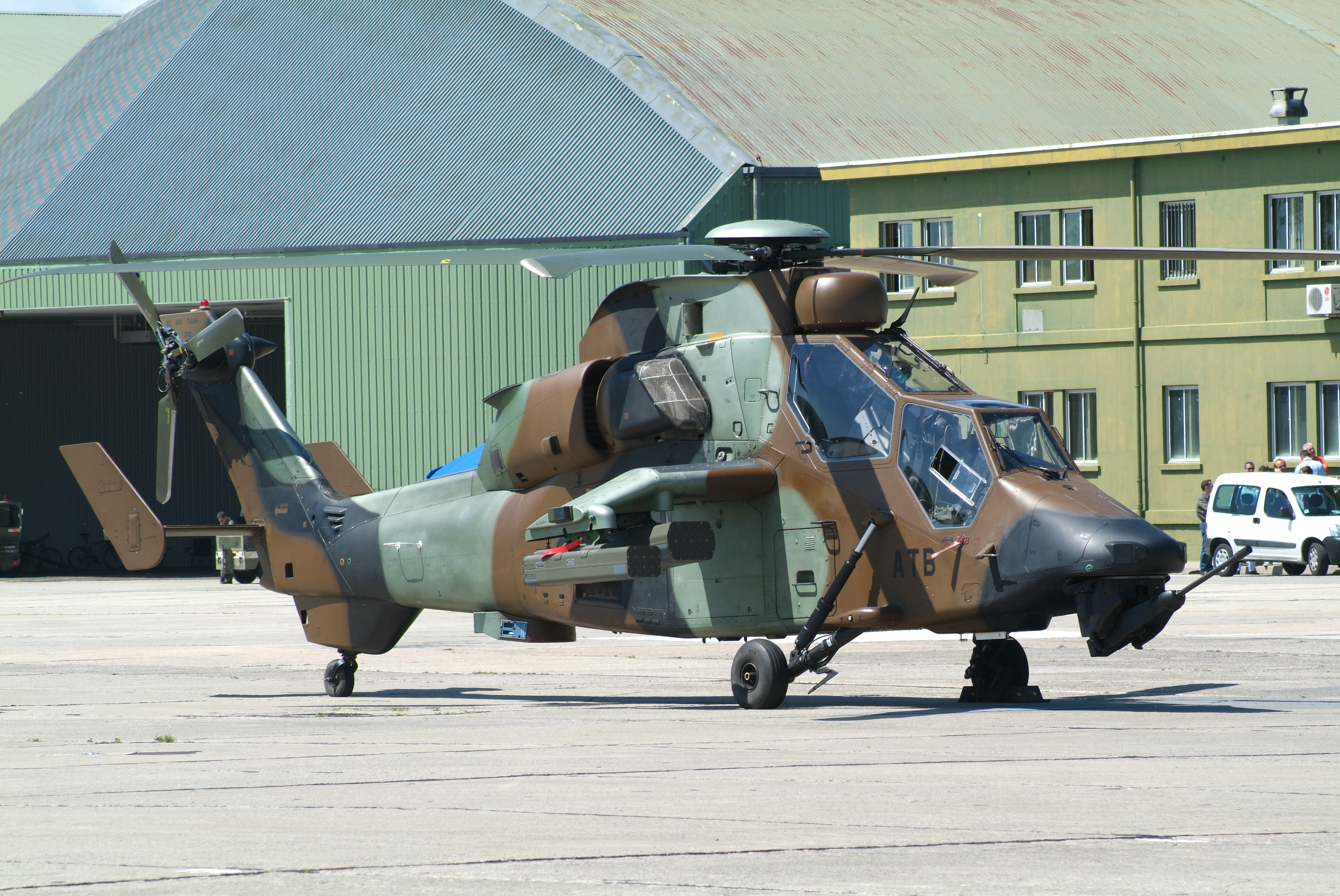 French Army EC.665 Tigre at the Orange Air Base open day in May 2008. The type has been selected by Spain, Germany and Australia. This one is from the French Army airfield at Le Luc where the Germans have some of their new attack helicopters based as well.